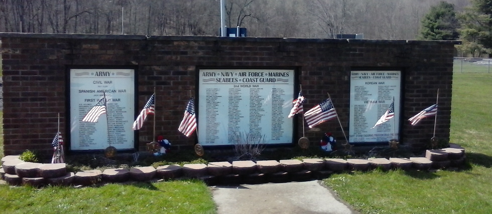 Park in Roswell, Ohio has this commemoration of veterans of war from the village